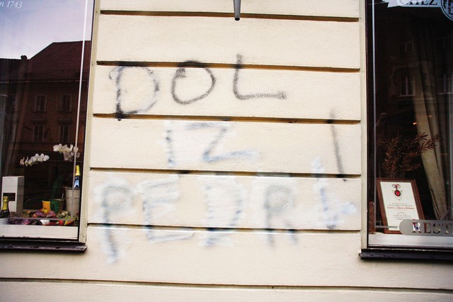 Homophobic painting in the streets of Ljubljana